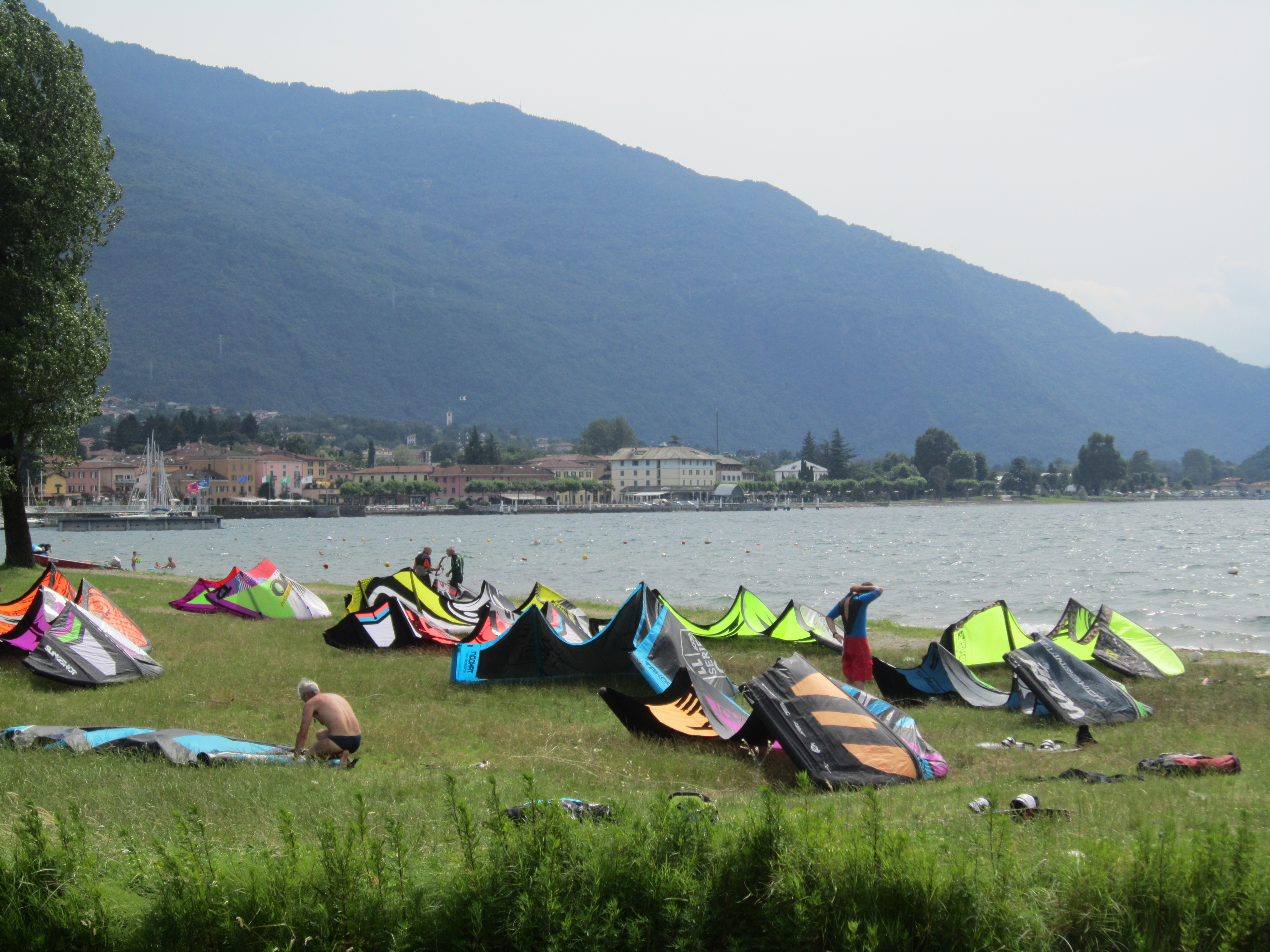 Kitesurfing at the beach of Colico (Lake Como)